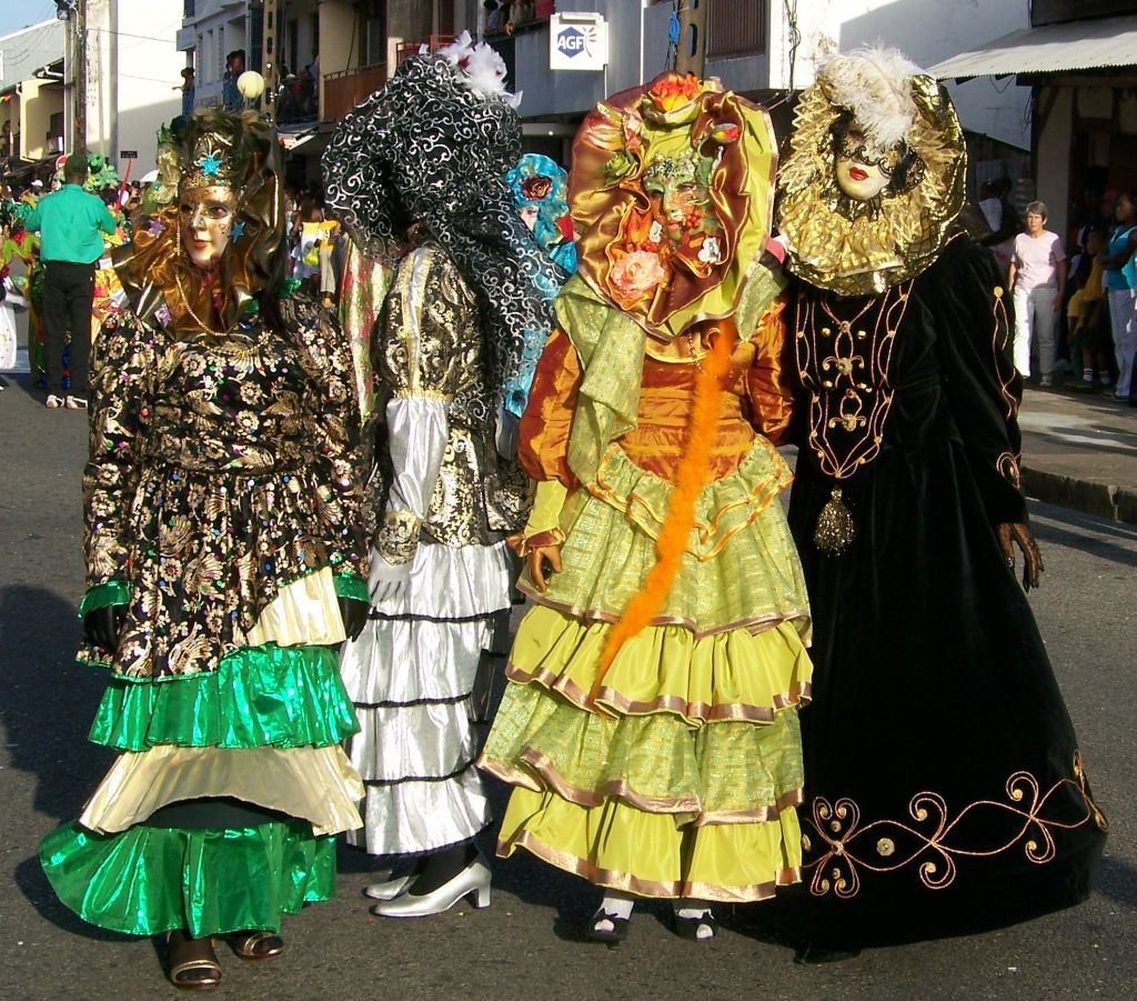 Women wearing Touloulou costume